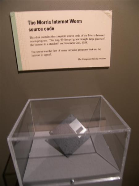 Museum of Science - Morris Internet Worm